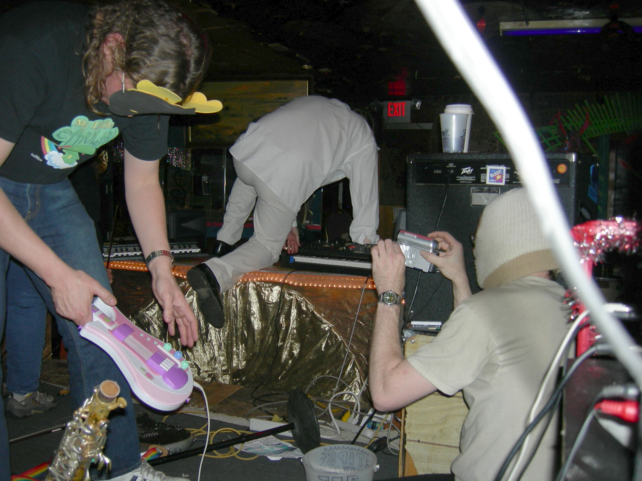 The Dead Air Fresheners performing at Bob's Java Jive, Tacoma, Washington. Image probably colormapped lighter than the raw photo.